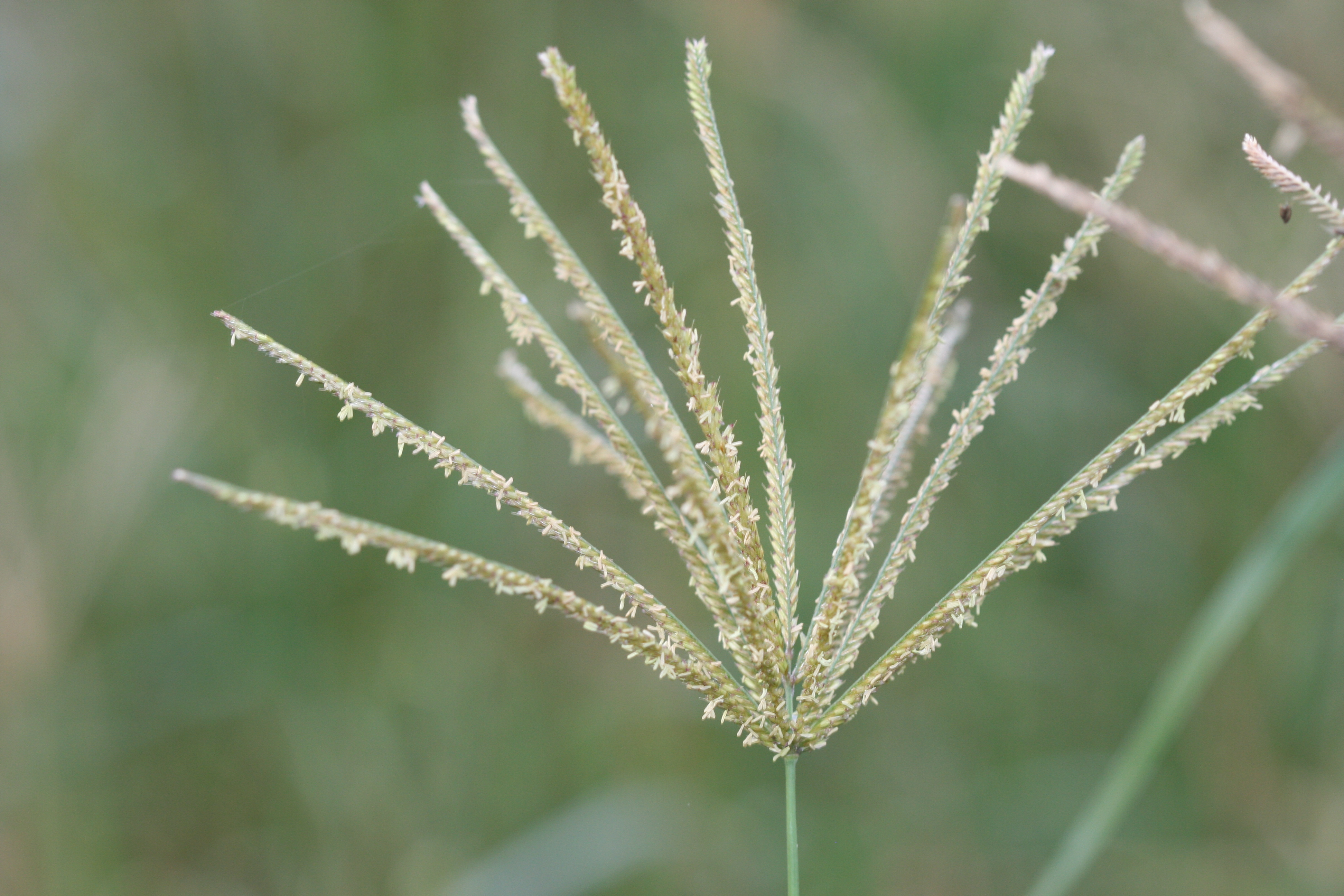 Chloris gayana - Rhodes grass